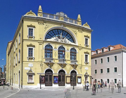 Split - HNK panorama